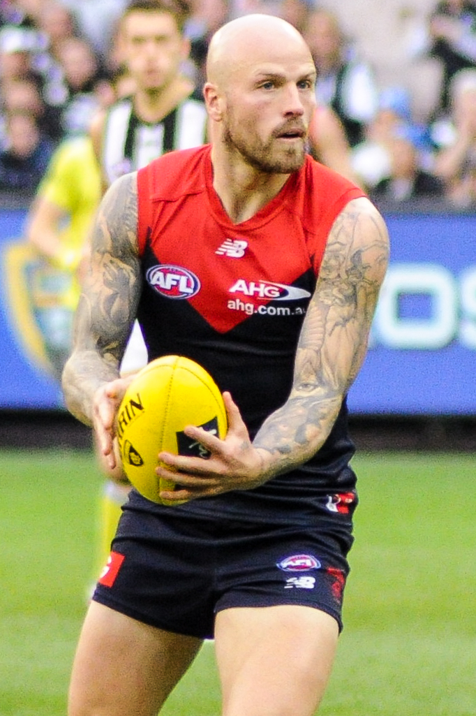 Nathan Jones during the AFL round twelve match between Melbourne and Collingwood on 12 June 2017 at the Melbourne Cricket Ground in Melbourne, Victoria.